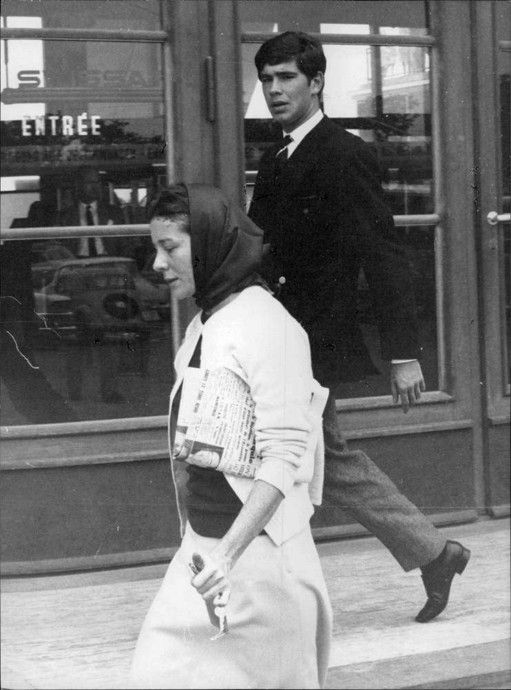 Bettina Graziani strolling in the streets of Geneva.